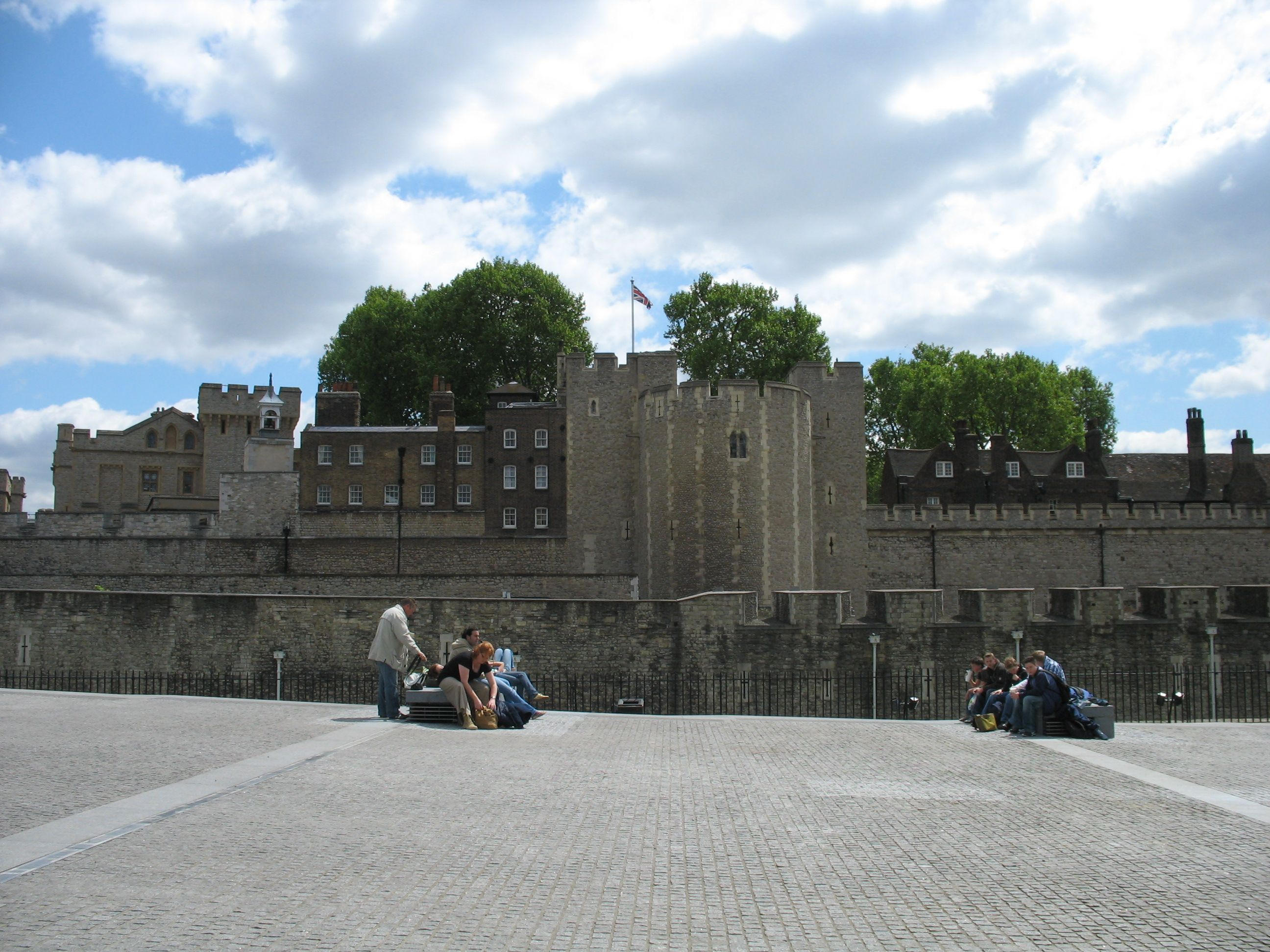 The cobblestone courtyard recently built over Tower Hill, where many notables of British history (such as Sir Thomas More) lost their heads. This is where many public executions were held for hundreds of years.